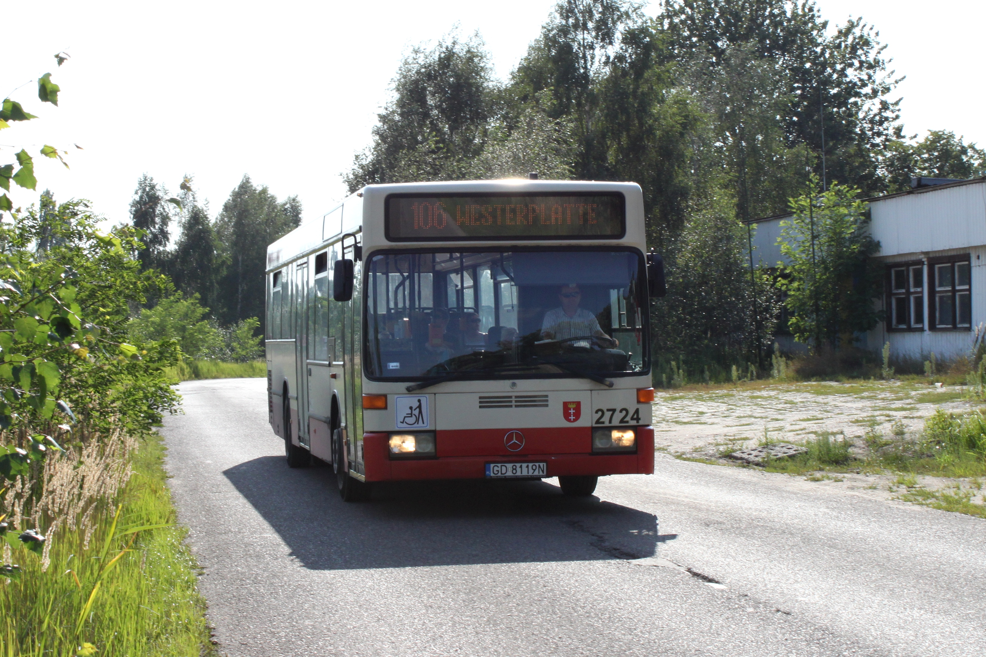 ZKM Gdańsk Mercedes-Benz O405N2 bus (built 1995, #2724) on line 106 to Westerplatte on Pokładowa Street in Gdańsk, Poland.